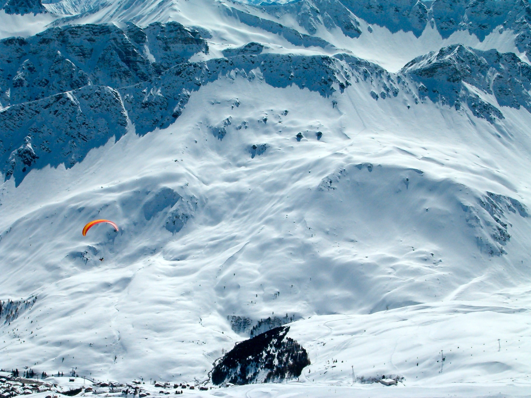 Schafrügg mountain at Arosa seen from the air